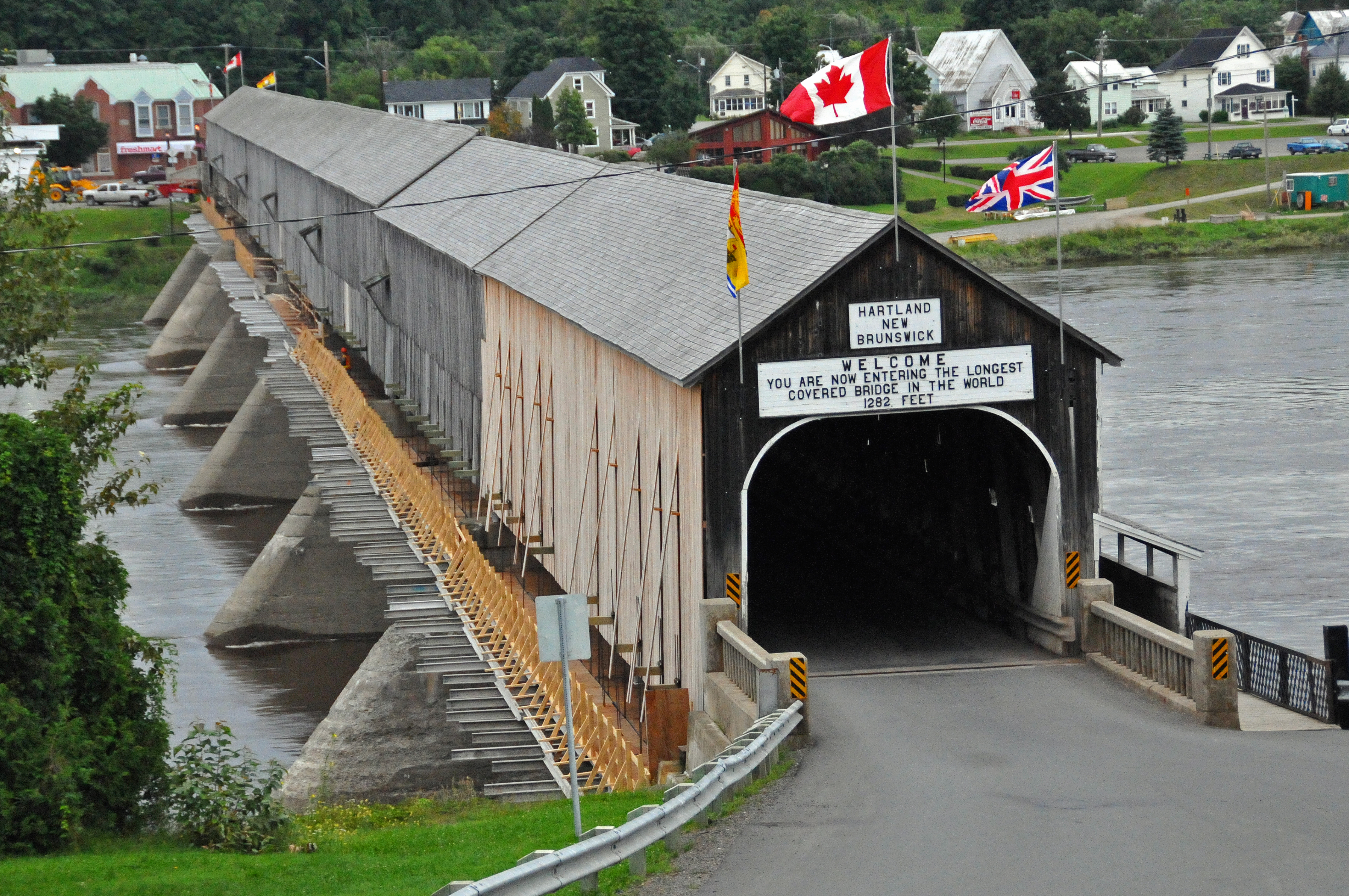 Hartland covered bridge - This structure, 390.75 metres long, is by far the longest covered bridge in the world. Covered bridges date from the first decade of the 19th century, when North American builders began using wooden trusses for long spans and covered them to prevent the truss joints from rotting. After 1840, the Howe truss, which introduced iron tension rods into the truss work, was widely adopted, and New Brunswick erected numerous bridges using this technique, among them this one, built in 1901.[1] It was covered in 1922, after repairs to prevent new damage.[2] The bridge is located in Hartland, New Brunswick, Canada Made Explore #299 Aug. 14, 2008